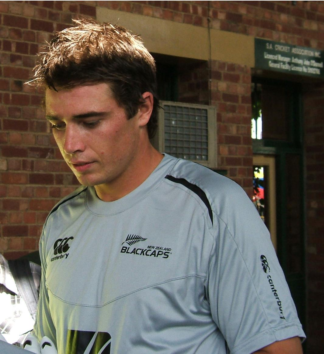 Tim Southee at a training session at the Adelaide Oval